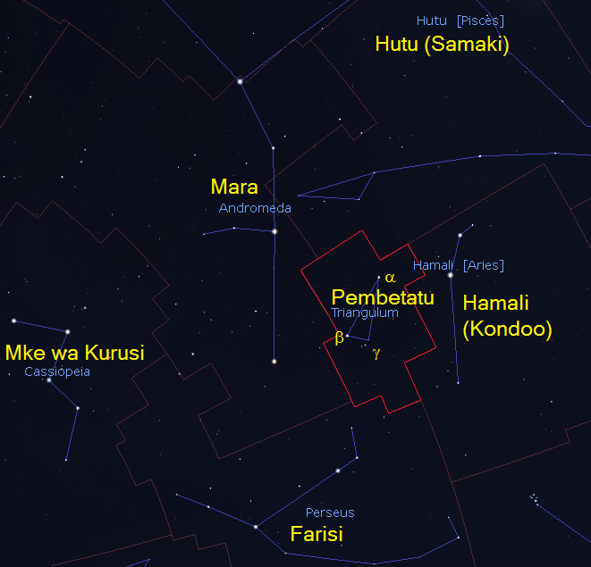 Constellation Triangulum as seen from Tanzania, Swahili labelled Kiswahili: Kundinyota Pembetatu (Triangulum) jinsi inavyoonekana kutoka Tanzania, majina kwa Kiswahili